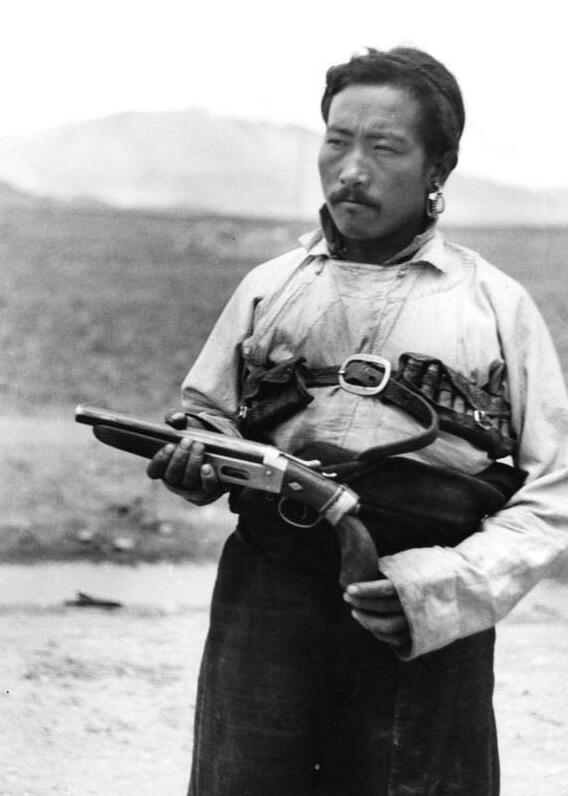 Kala, Postreiter Information added by Wikimedia users.